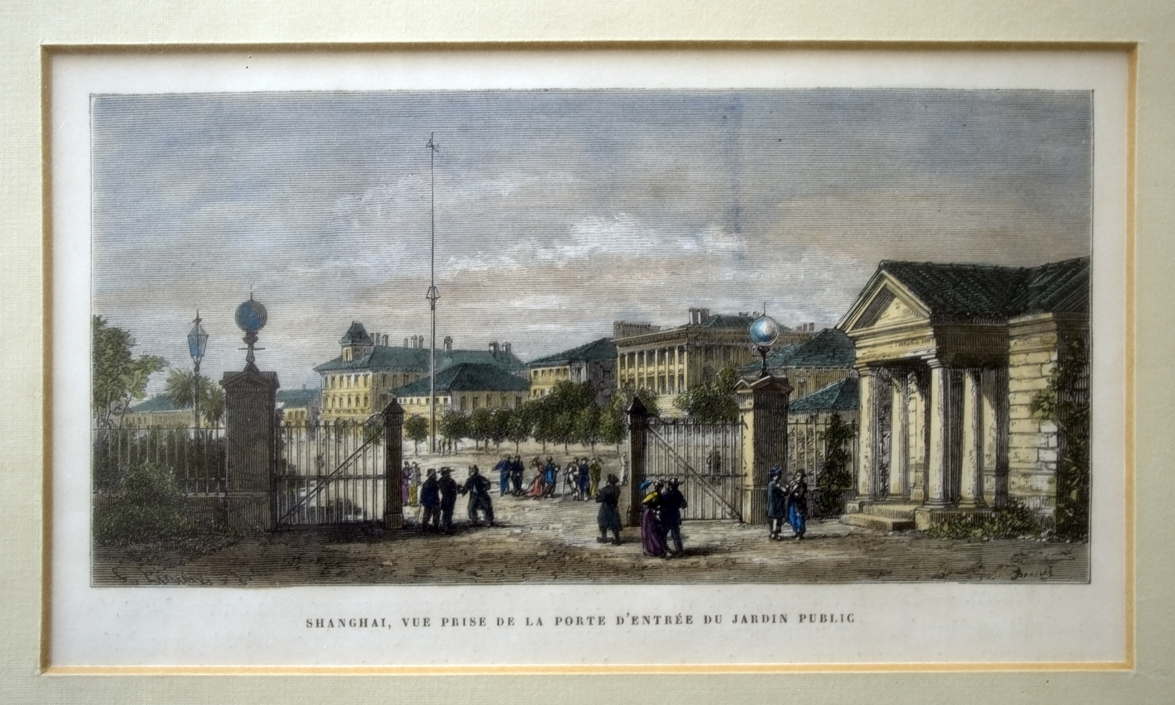 Public Garden in Shanghai at the end of the 19. century - etching by unknown author